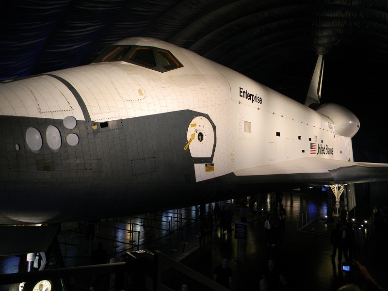 Space Shuttle Enterprise at the Intrepid Sea-Air-Space Museum, New York